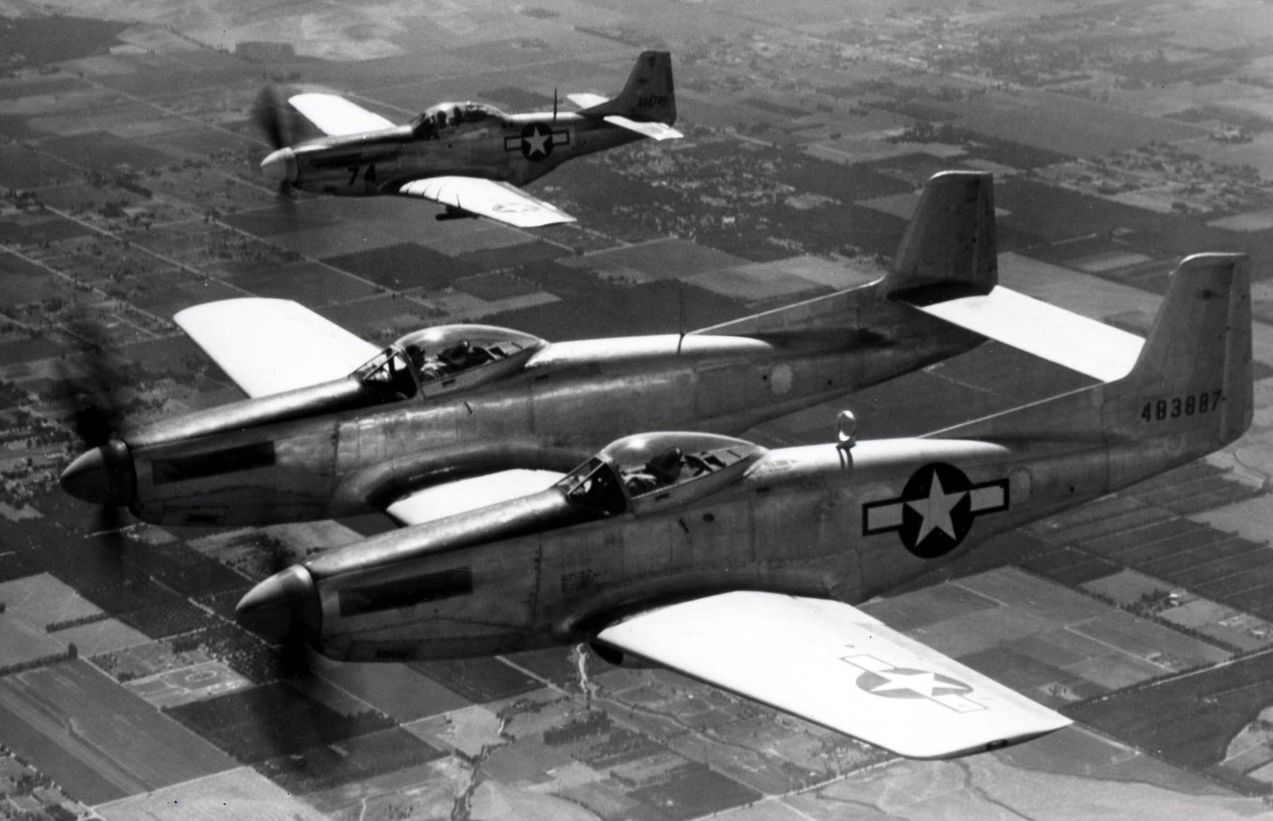 North American F-82 (S/N 44-83887) in flight with North American P-51D (S/N 44-84745).